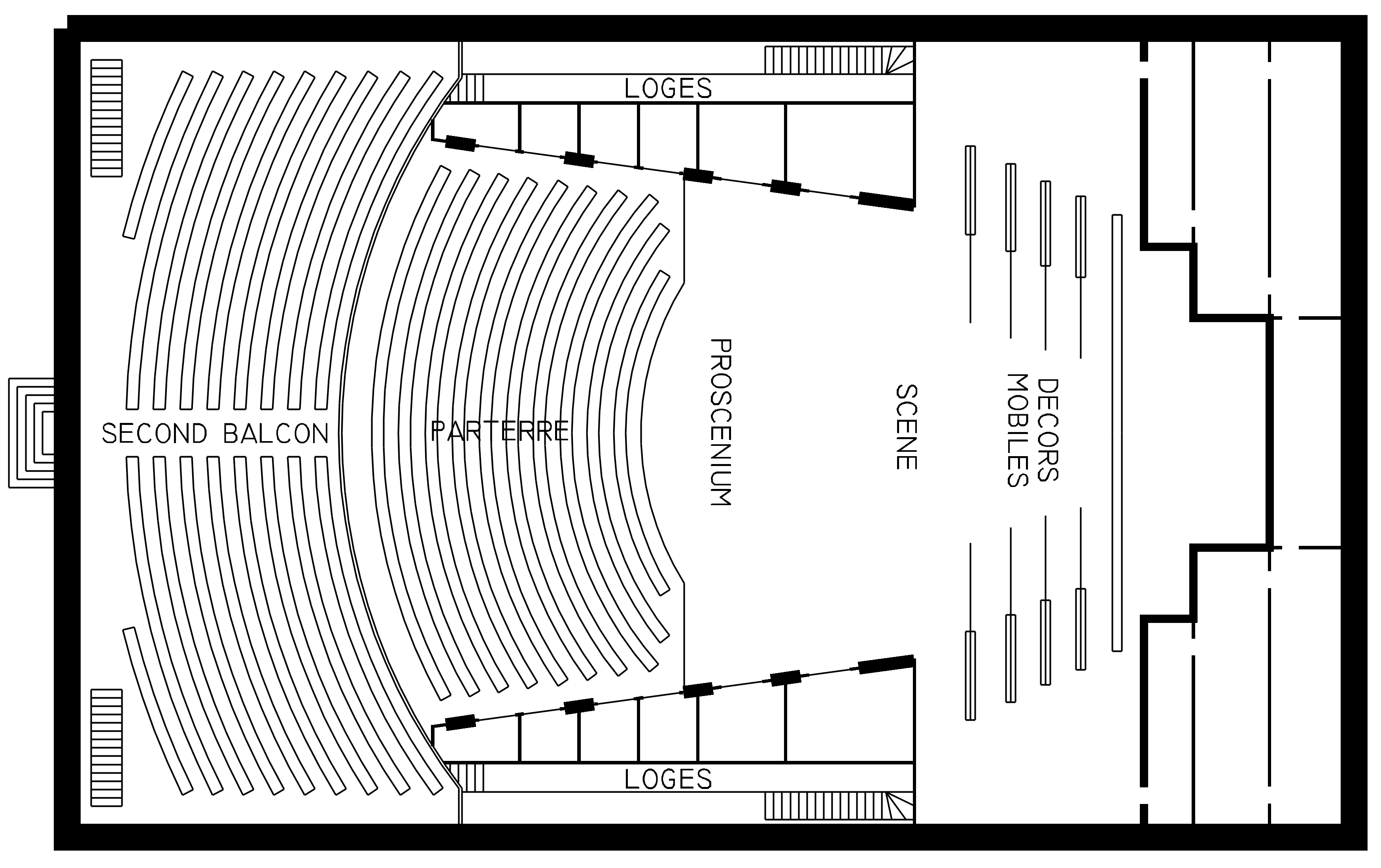 Theater Royal Drury Lane (top view), drawn from an isometric perspective by Richard Leacroft